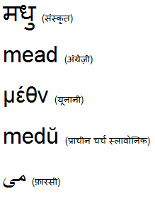 Cognates of 'madhu' (mead) in various languages (language names are in devnagri script)